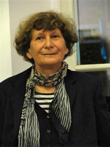 Ewa Kuryluk (b. May 5, 1946 in Kraków, Poland) – Polish painter-performer, writer and essayist. She is the daughter of Polish politician and diplomat Karol Kuryluk (1910-1967). She lives in Paris, France.